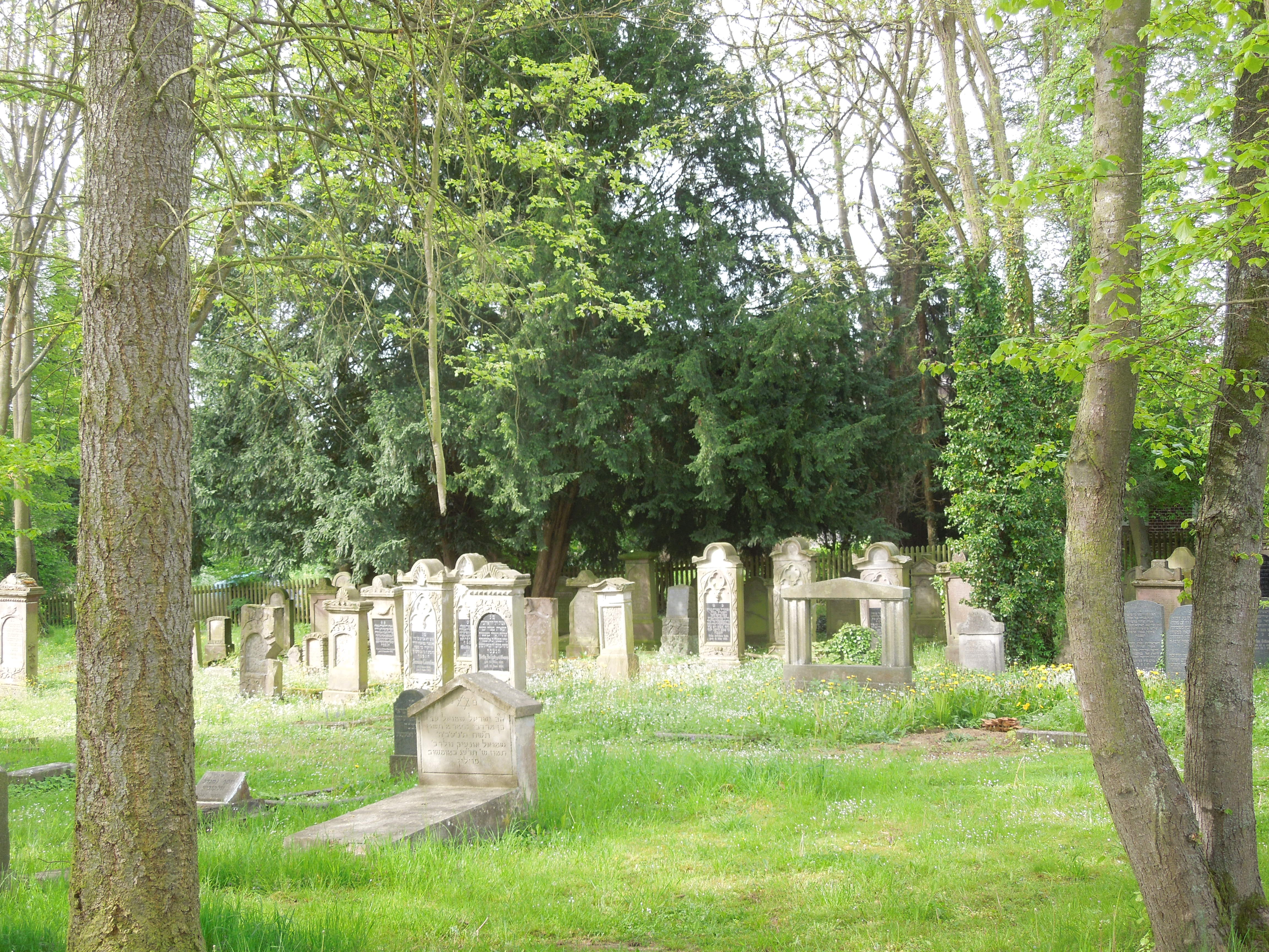 Jewish cemetery on Schladenweg in Fritzlar